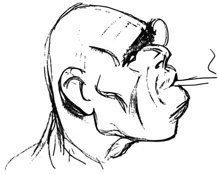 Caricature of the Romanian writer Ioan Alexandru Brătescu-Voinești.